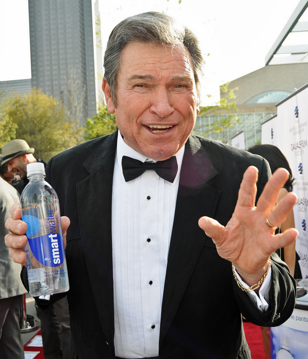 Burton Gilliam at the 2011 Dallas International Film Festival.